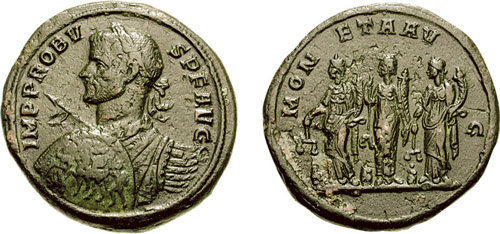 Probus. 276-282 AD. Æ Medallion (22.66 gm, 6h). IMP PROBV-S P F AVG, laureate and cuirassed bust left, holding spear forward and shield decorated with scene of profectio MON-ETA AV-G, the three Monetae standing facing, heads left, each holding scale in their right hands above a stack of coins at their feet, and cornucopiae in their left hands. Gnecchi II pg. 118, 24 and pl. 120, 5; Pink VI/I, pg. 59; Toynbee -; Dressel -; BMCREM pg. 74, 3; MRV -; MFA 77; Cohen 376. Choice VF, dark green patina with flecks of red and tan, minor roughness. ($3000) From the Michael Weller Collection. Ex Hess-Leu 36 (17-18 April 1968), lot 535; Consul Eduard Friedrich Weber Collection (J. Hirsch XXIV, 10 May 1909), lot 2406.